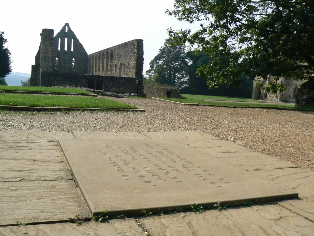 The site where King Harold II died. The inscription says: "The traditional site of the High Altar of Battle Abbey founded to commemorate the victory of Duke William on 14 October 1066. The high altar was placed to mark the spot where King Harold died." Behind the abbey ruins, the battlefield. Harold's body was later moved to Waltham Abbey in Essex.